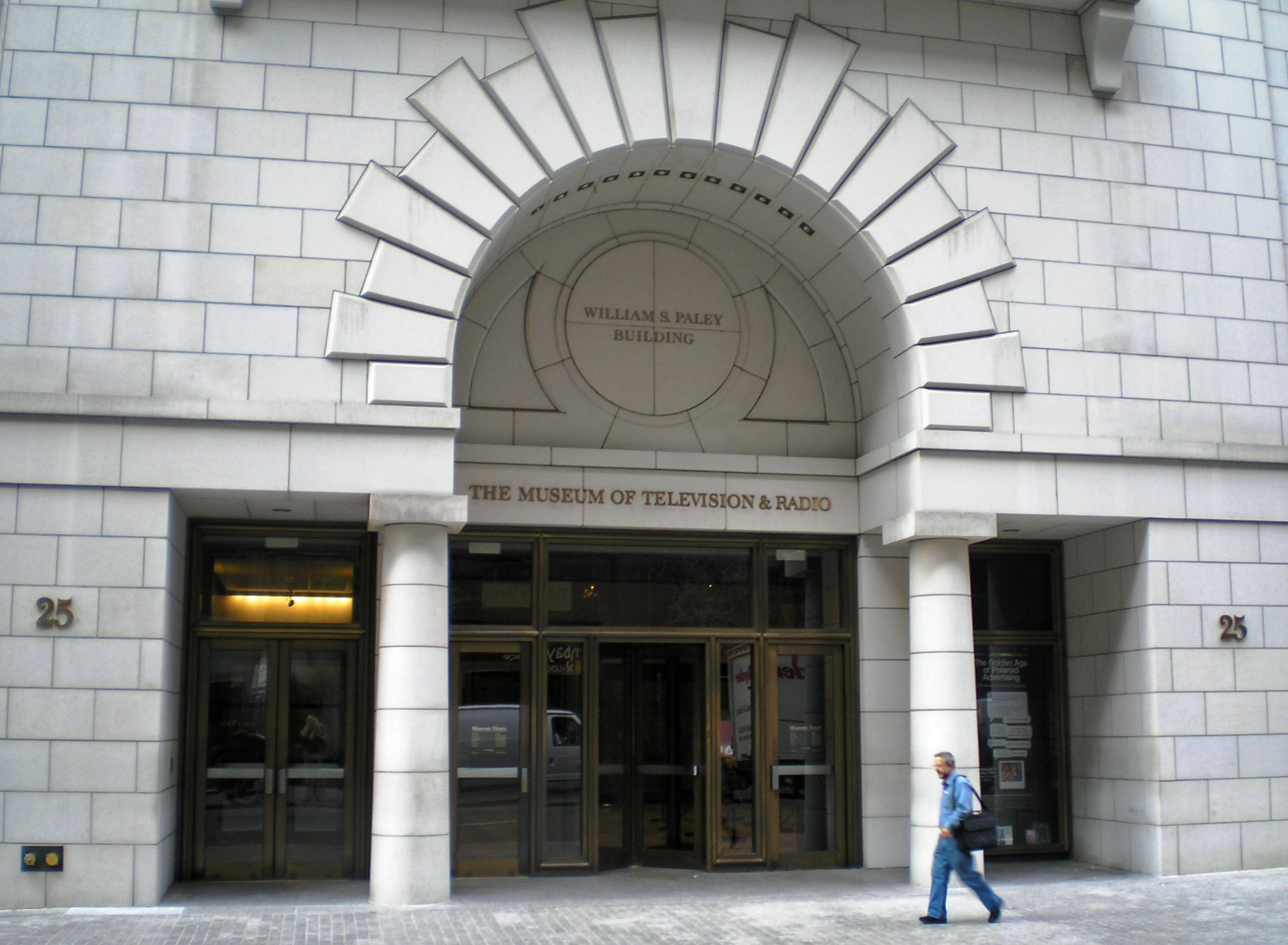 The Museum of Television and Radio in New York City.